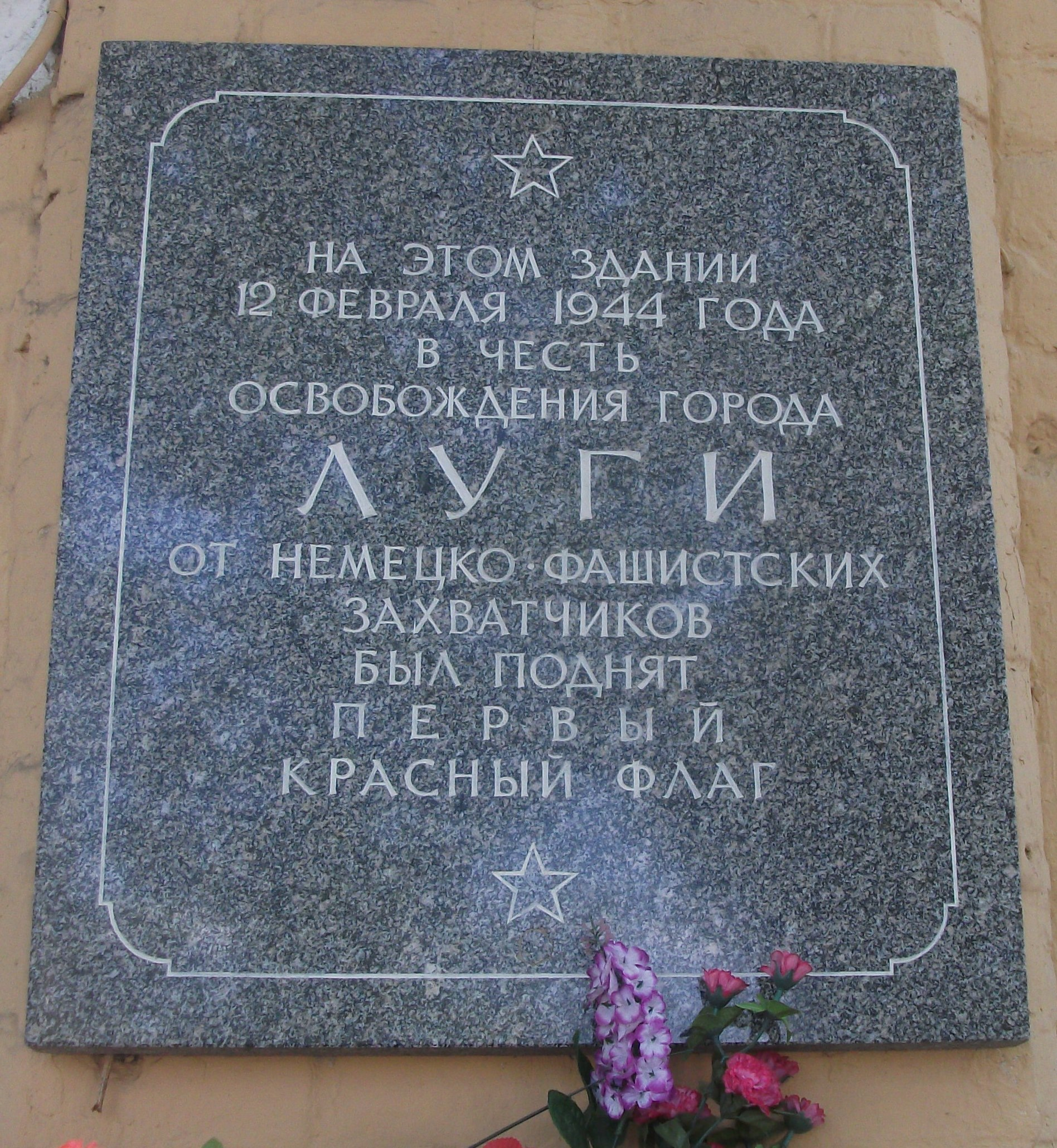 The Luga Liberaion plaque